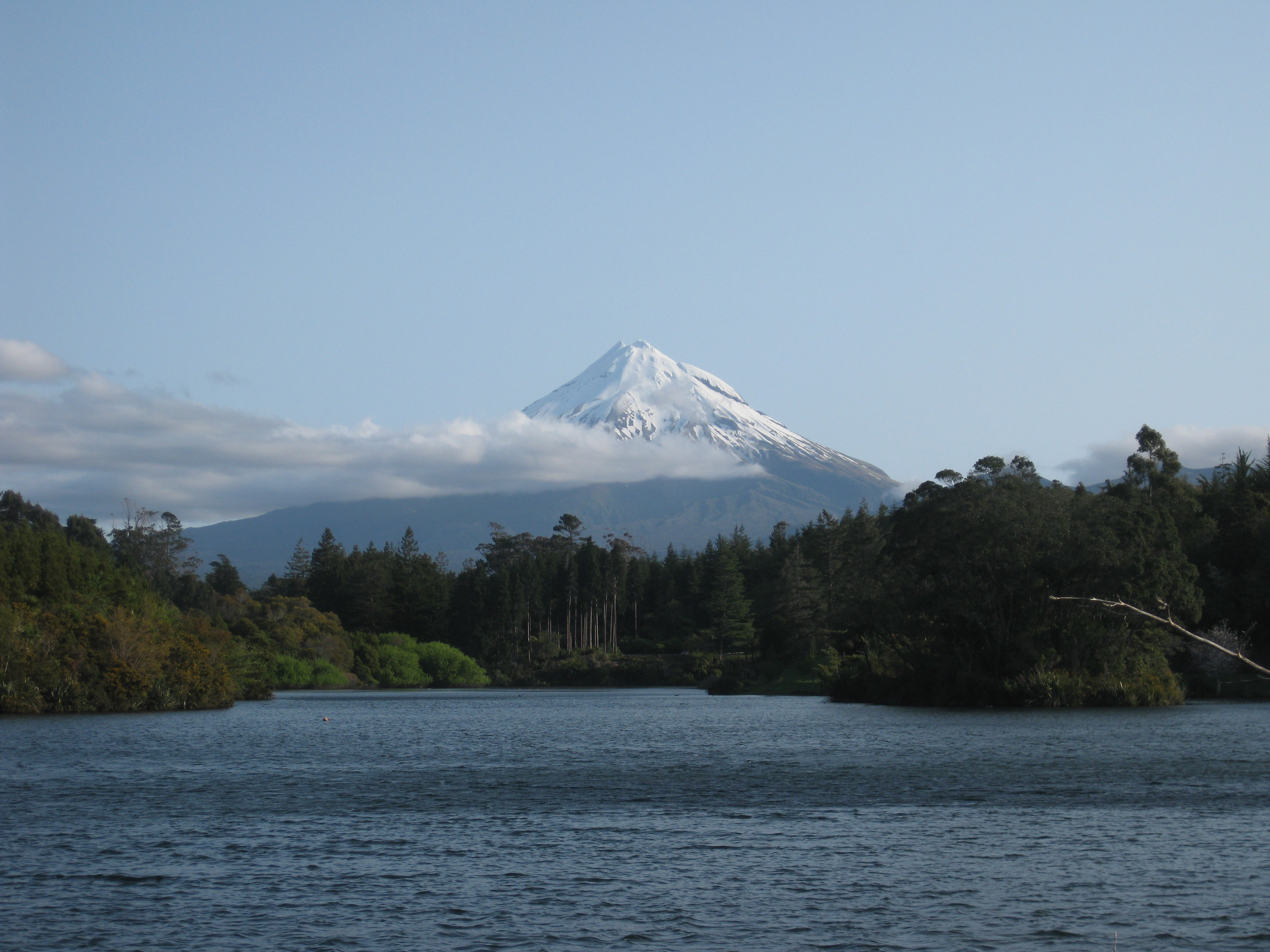 Lake Mangamahoe located near the city of New Plymouth in Taranaki Region of the New Zealand's North Island. Mount Taranaki is visible in the background.